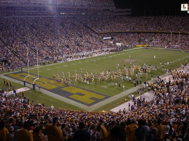 LSU Tiger Stadium during the LSU - Arkansas game, november 2004. Author : Nicolas Larchet